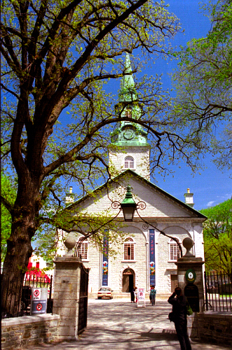 Quebec City - Holy Trinity Anglican Cathedral